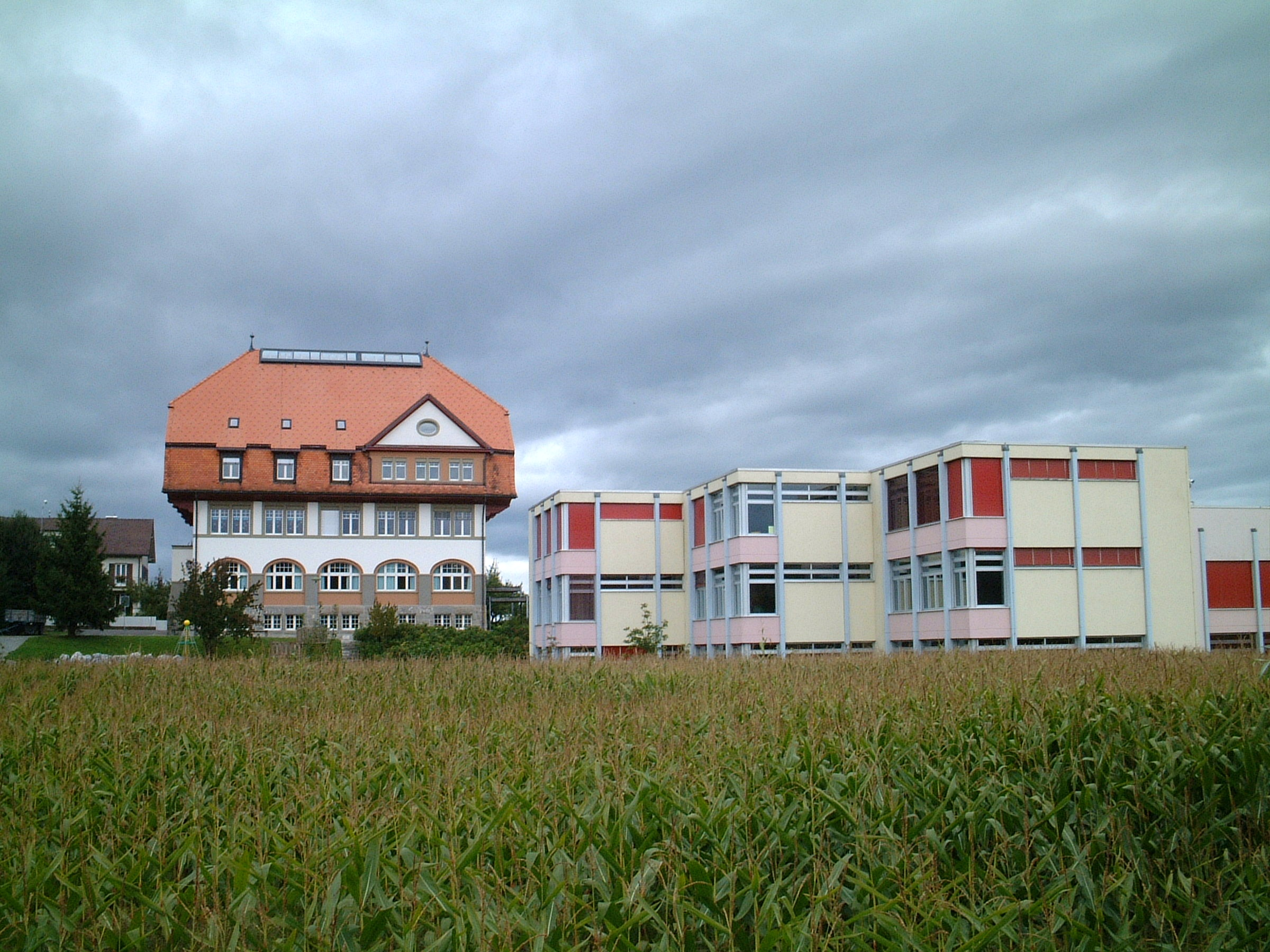 Schmitten, a village in the canton of Fribourg, Switzerland. Schulhäuser (Alt- und Neubau)